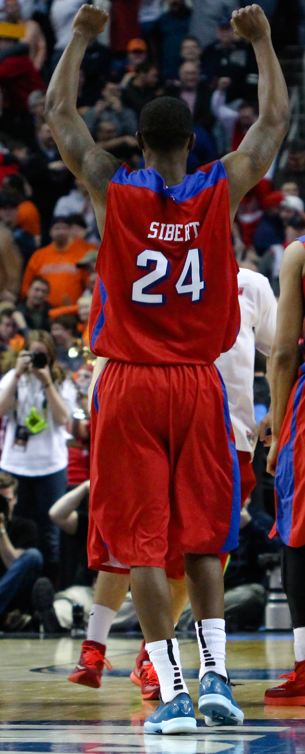 Dayton upsets Syracuse 55-53